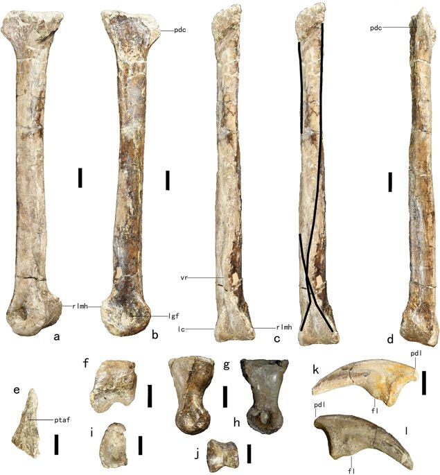 Anomalipes pes